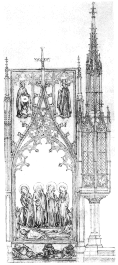 German draft for a "Holy Sepulchure" of about 1400